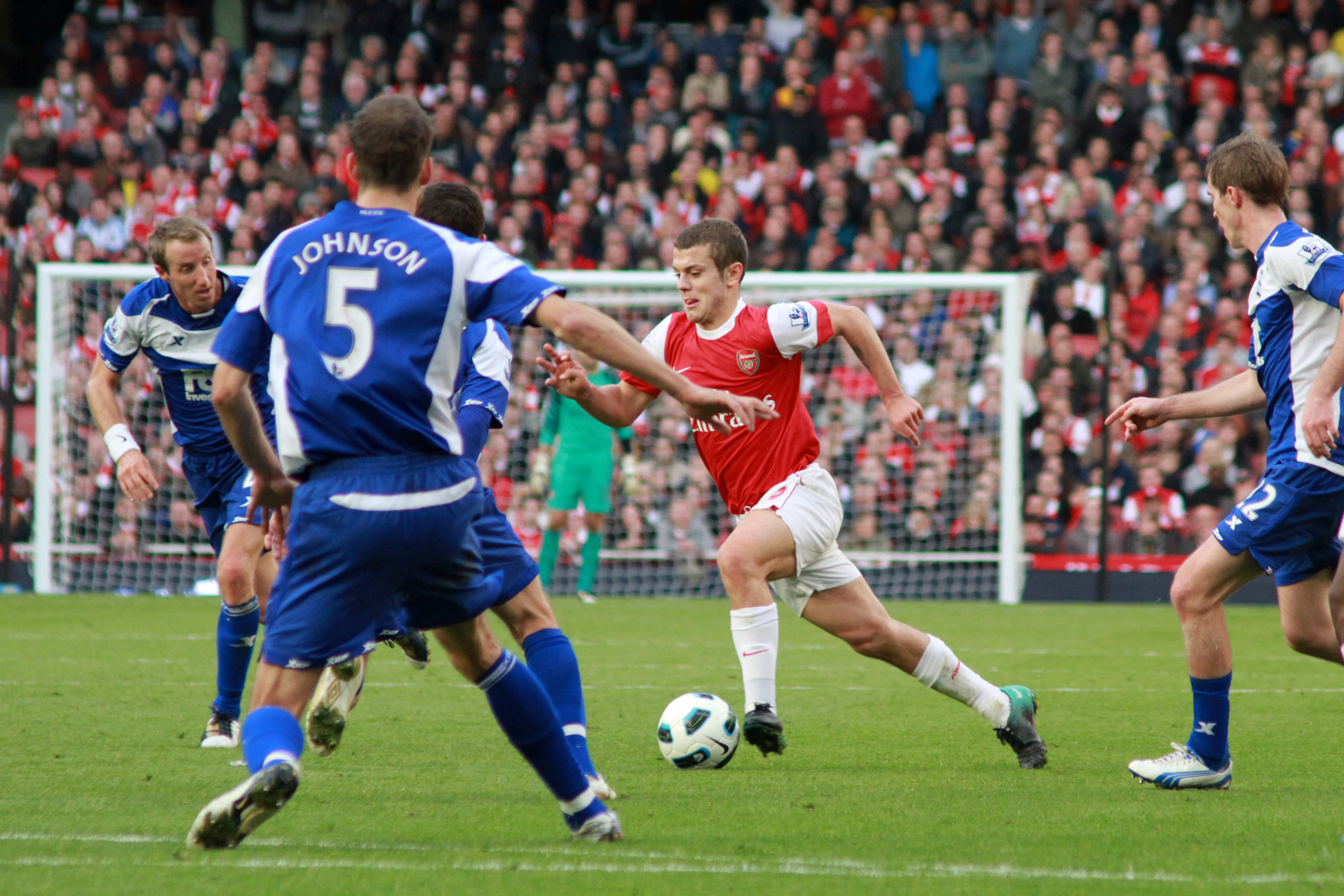 Arsenal v Birmingham City The Emirates 16 October 2010 (2-1)